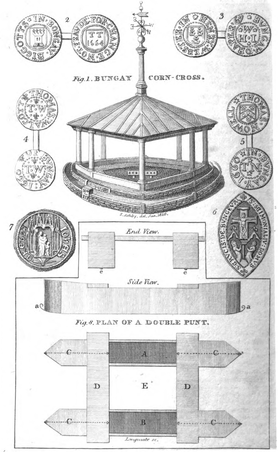 Corn Cross, one of two market crosses of Bungay, Suffolk, England. Torn down c. 1810.